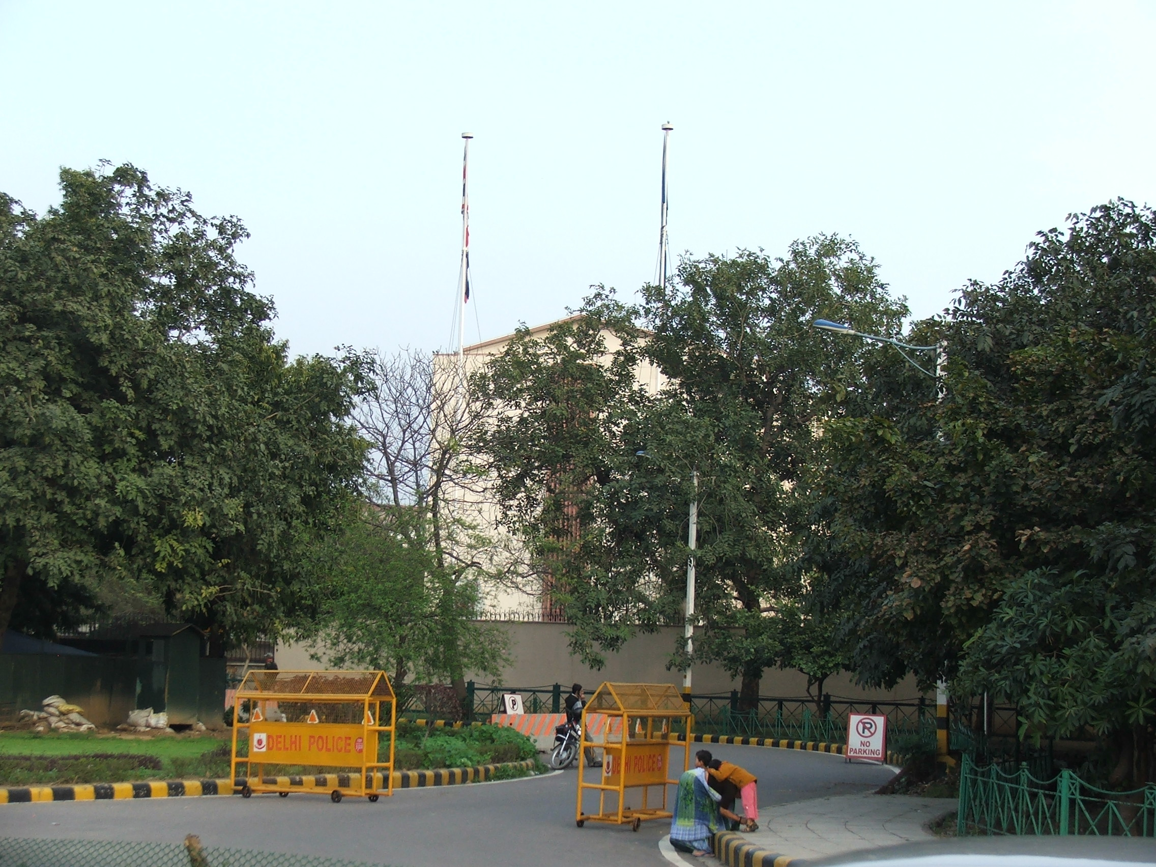 High Commission of the United Kingdom in New Delhi, India.